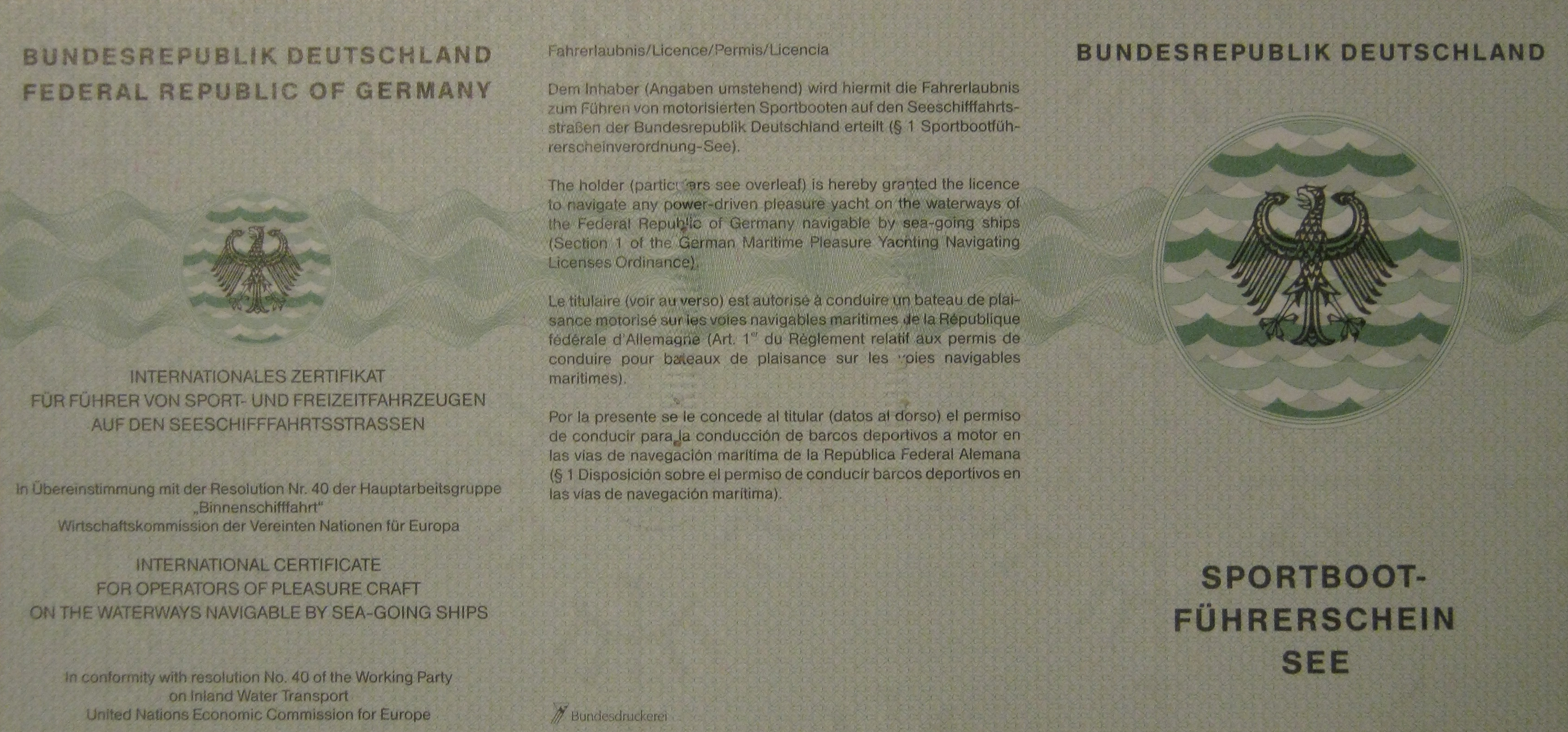 SBF See